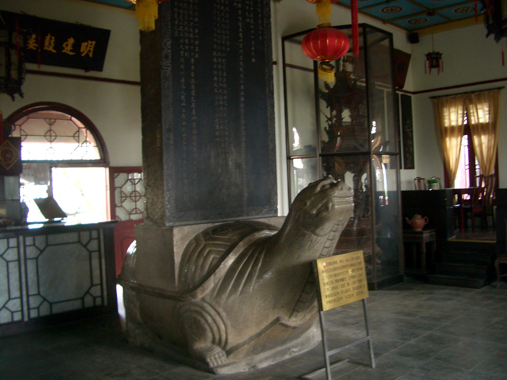 A tablet commemorating Kangxi Emperor's visit to Jiangning (today's Nanjing) in 1684. The tablet is held by a huge tortoise (bixi or guifu), and is housed on the second floor of the Drum Tower in central Nanjing